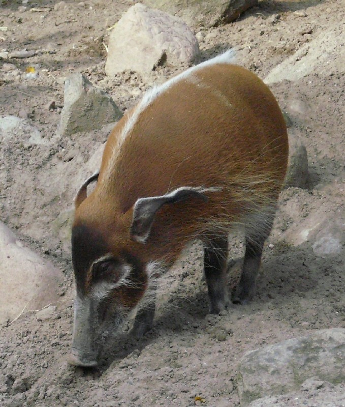 Red River Hog